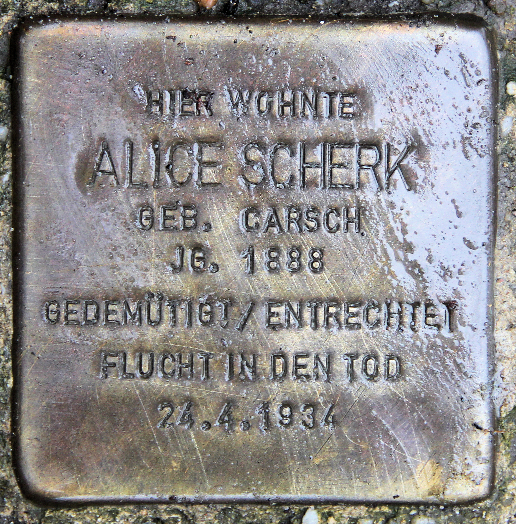 "Stolperstein" (stumbling block), Alice Scherk, Mozartstraße 10, Berlin-Lankwitz, Germany